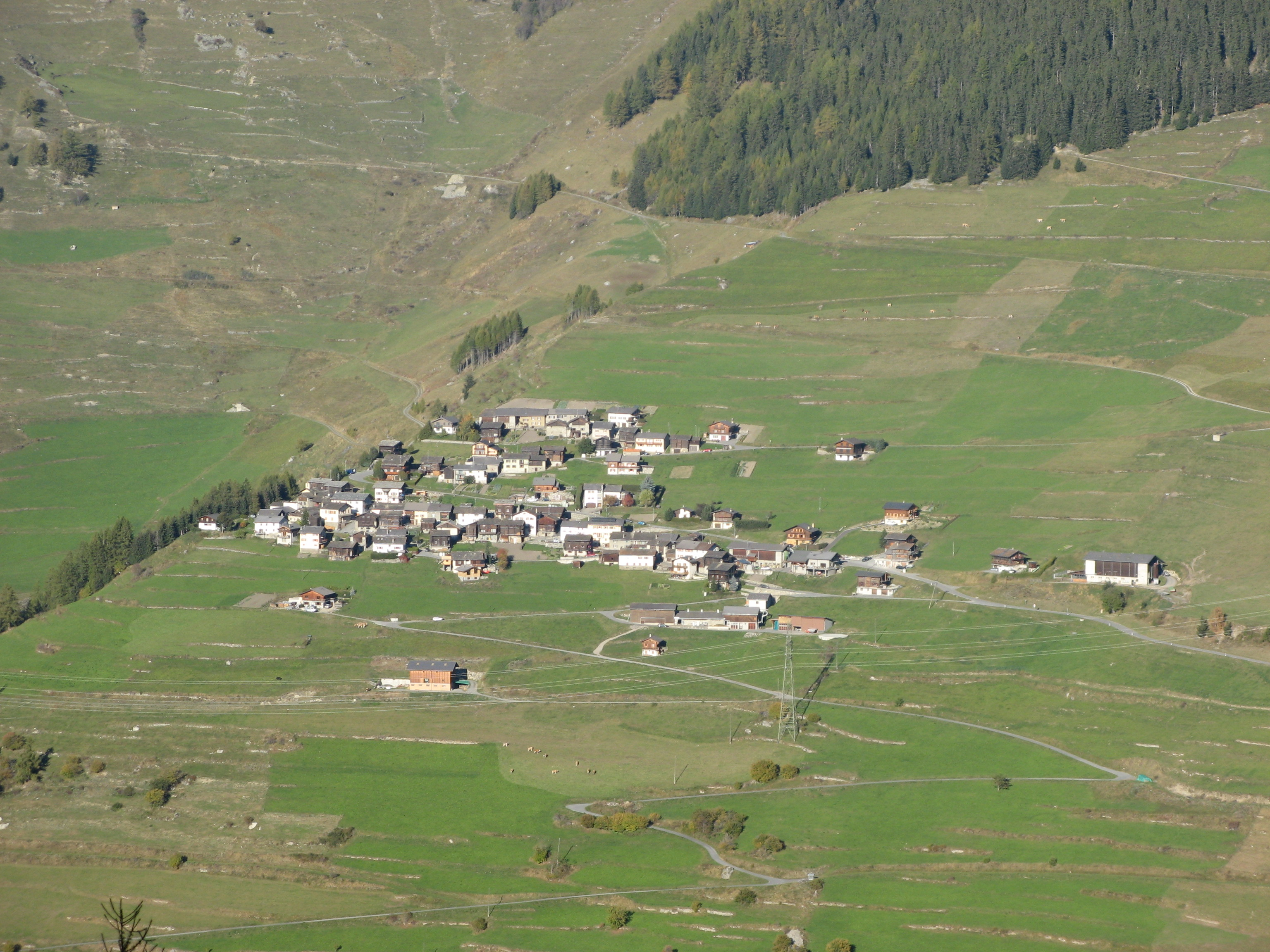 Chandonne village, above Liddes, in the Val d'Entremont, Valais, Switzerland.